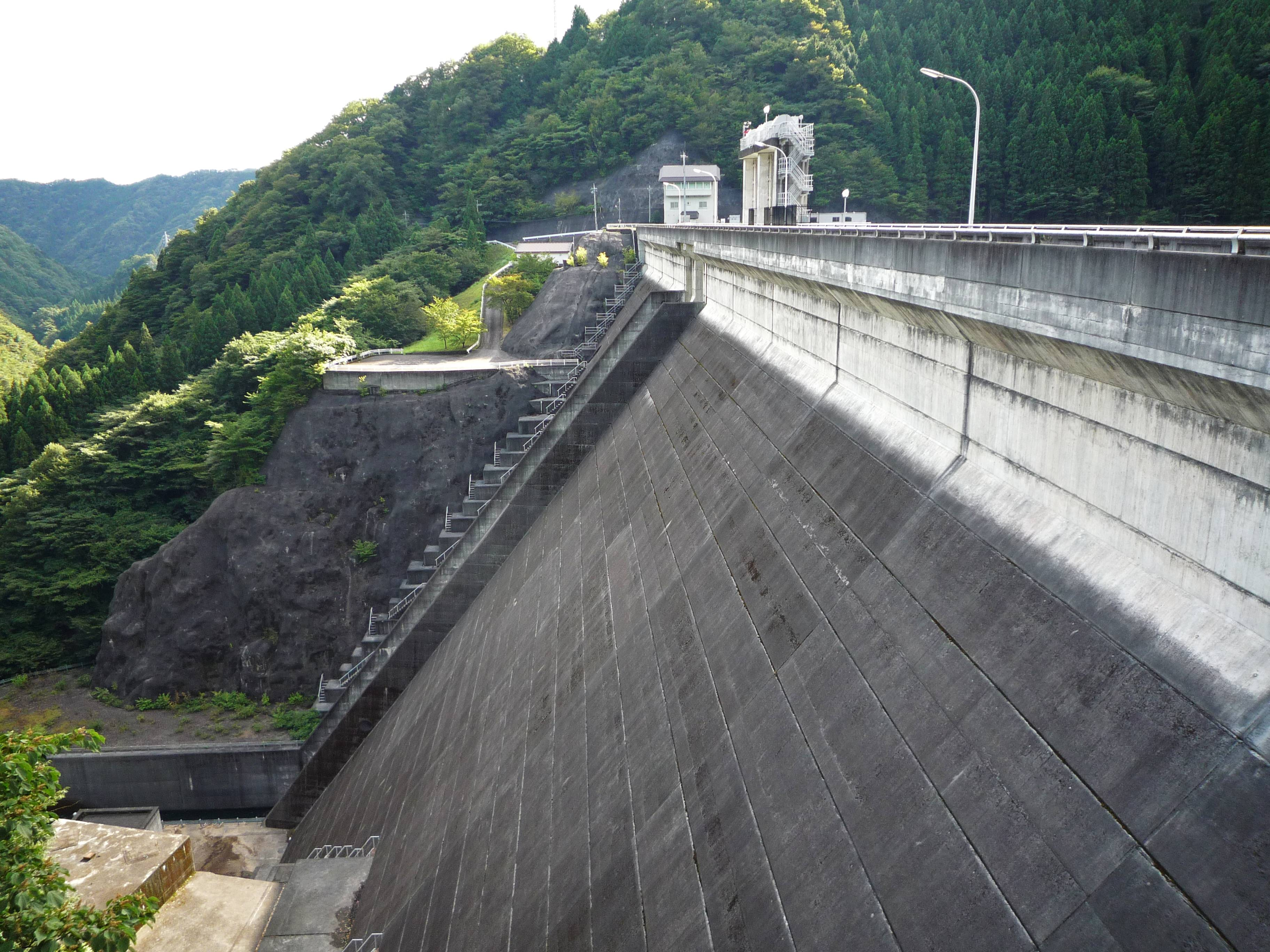 Imaichi Dam.